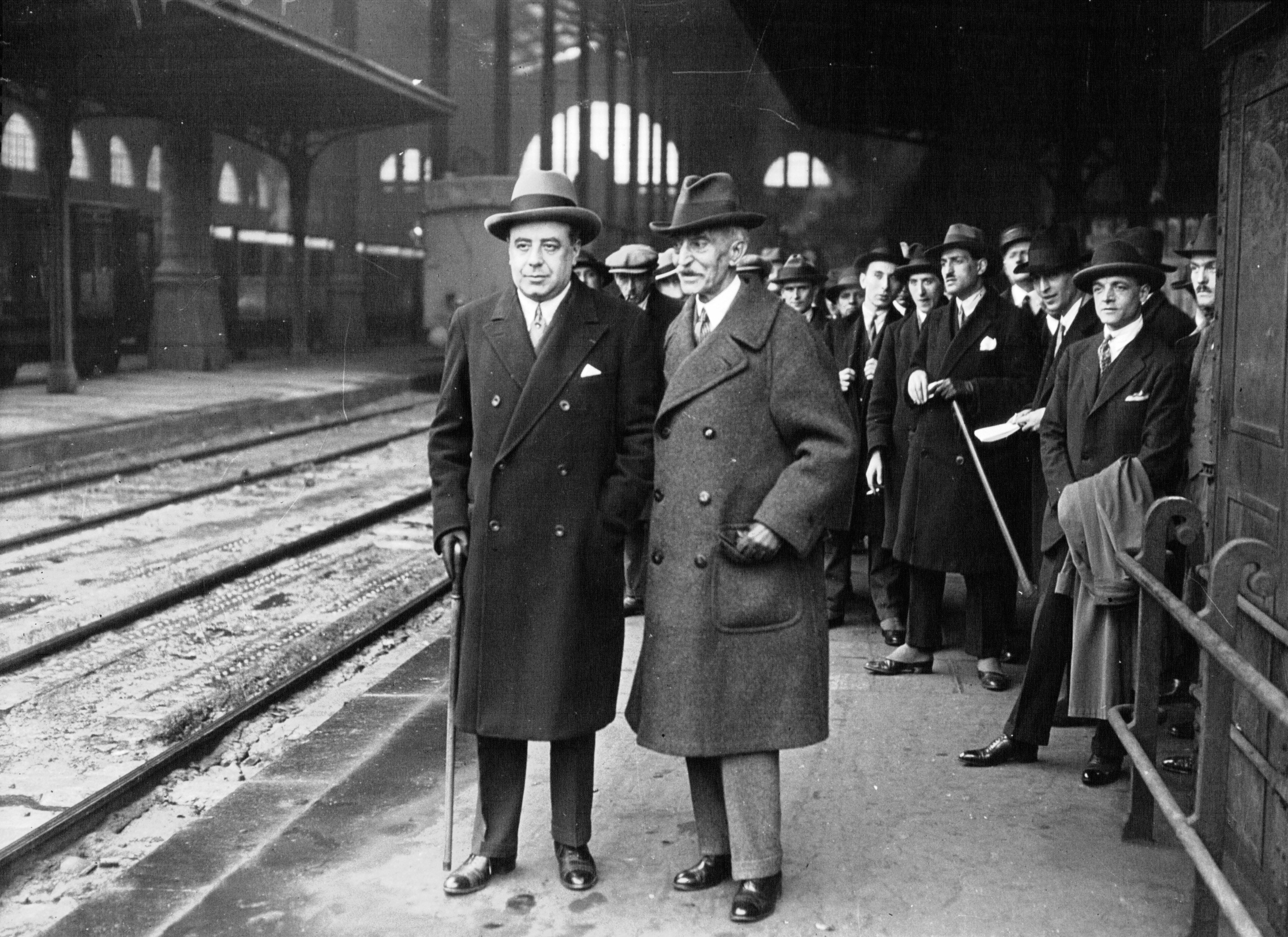 Departure of the Catalan hero Macià from Paris